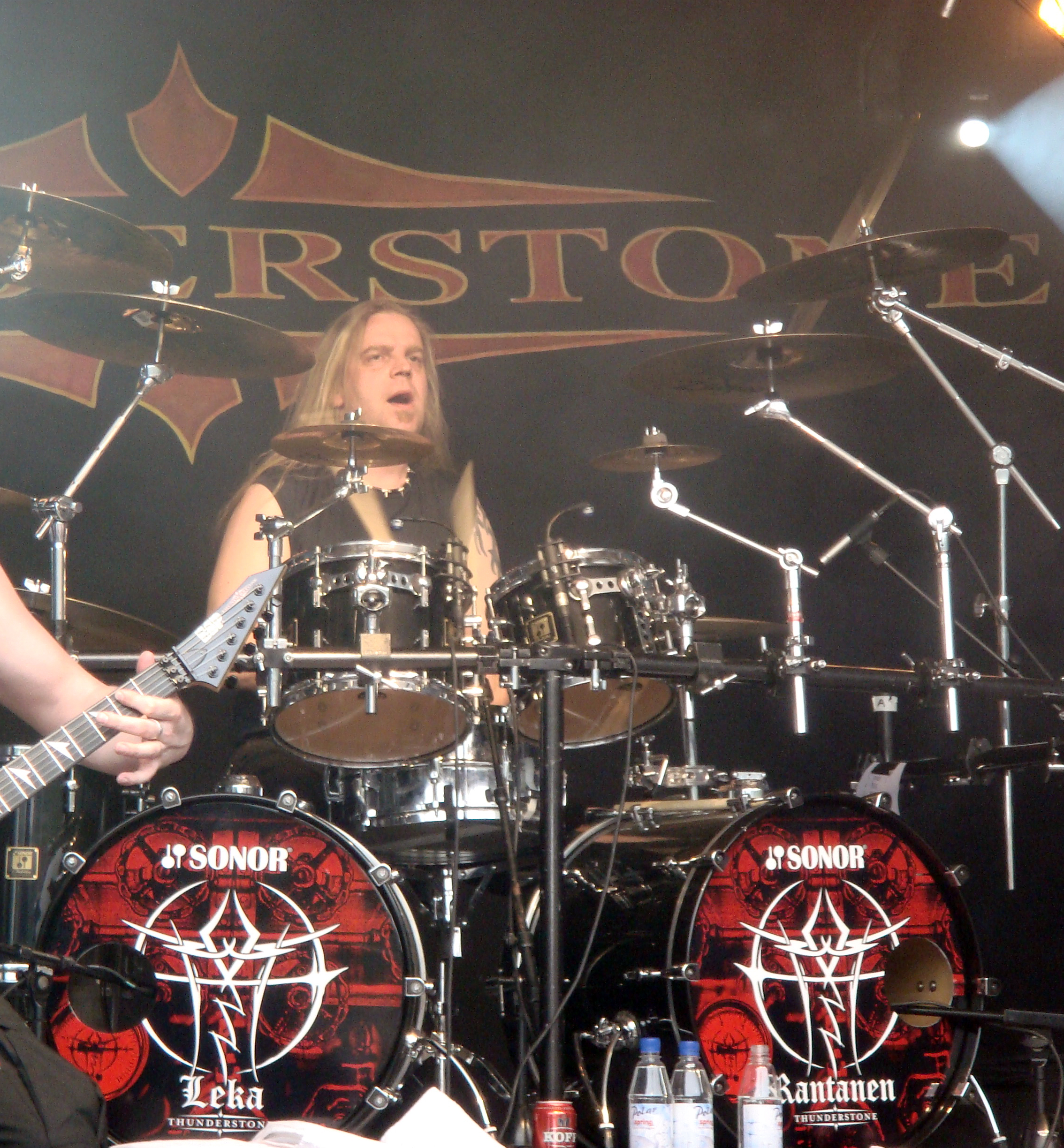 Mirka "Leka" Rantanen, drummer of the Finnish metal band Thunderstone at the Sauna Open Air 2007 Metal Festival